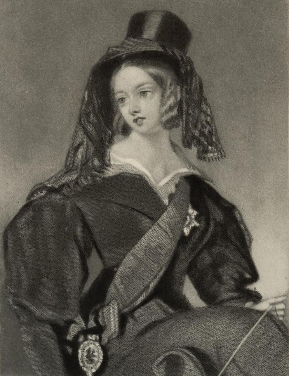 A portrait from the Welsh Portrait Collection at the National Library of Wales. Depicted person: Queen Victoria – British monarch who reigned 1837–1901